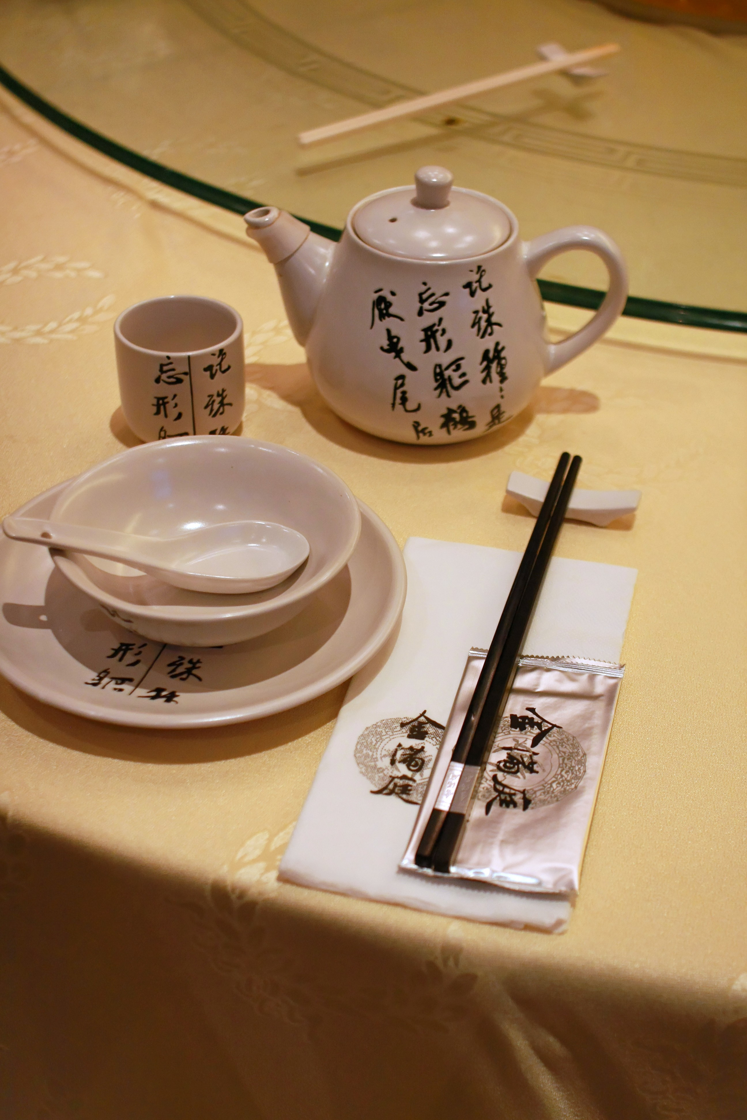 Chinese Cutlery